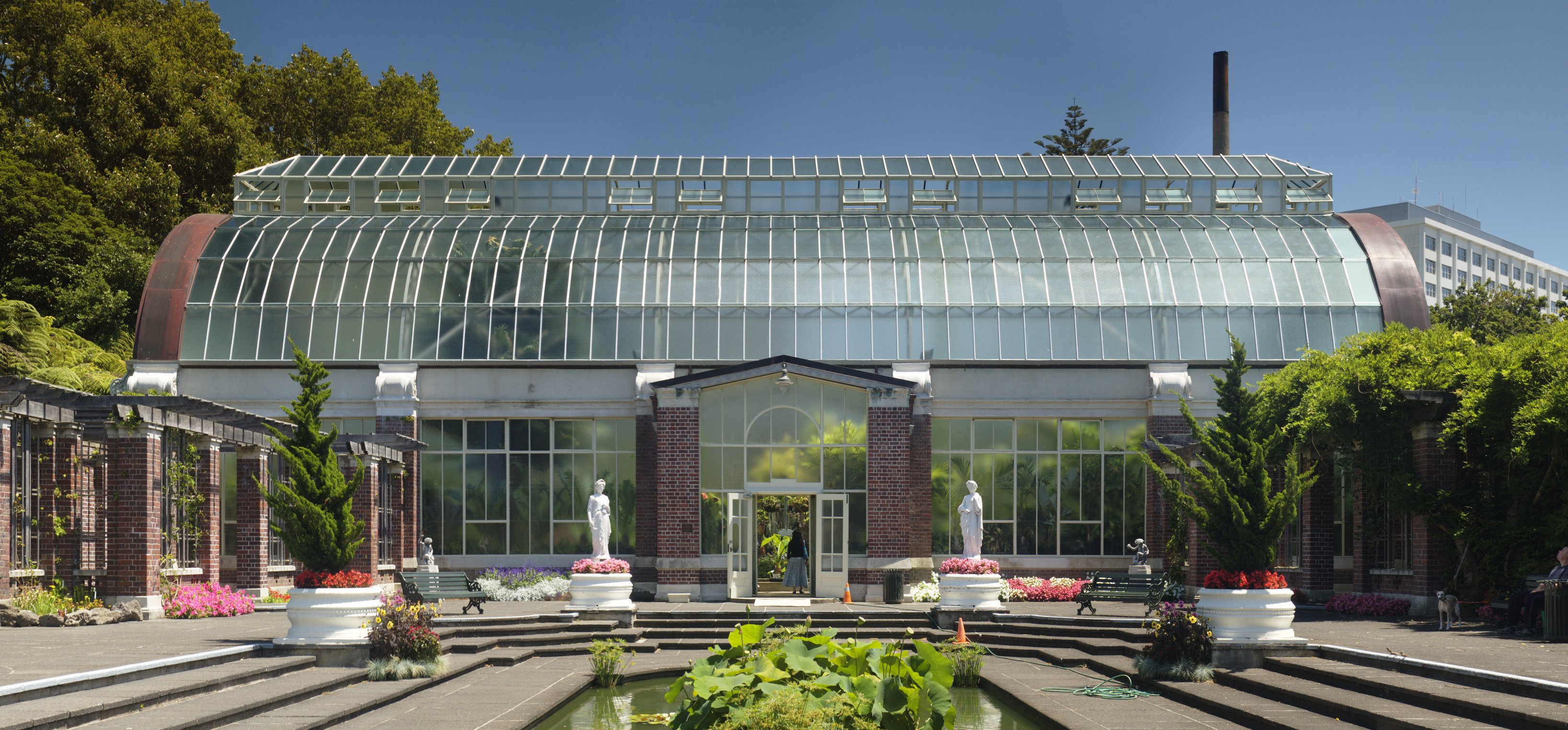 5-piece panorama of the Hot House of the Winter Garden in Auckland Domain